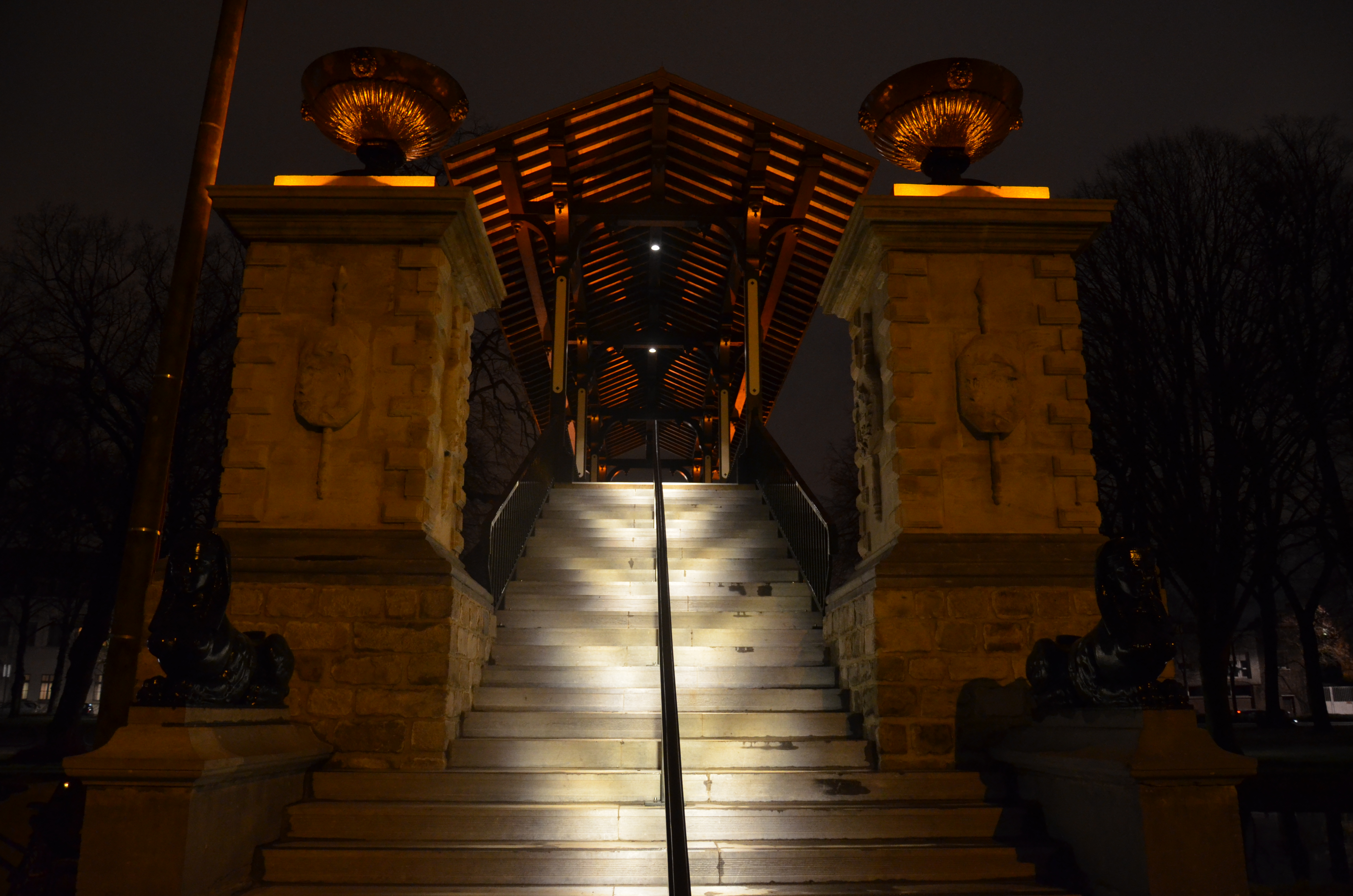 "Napoleon Bridge" that spans a canalised section of Middle River Deûle in Lille, near the Vauban Citadel. Photo taken a few days after the end of the 2014-2015 restoration) and installation of new lighting (January 2015). This lighting is "energy saving". It is also designed not to dazzle people and contribute as little as possible to light pollution: the lights are white LEDs integrated in the central ramp, and yellow LEDs illuminate architectural elements. Lighting is still standing (without presence detector). The wavelength is chosen to have a minimal effect on moths and therefore bats, and the position of the lamps is designed so that the light is not directed towards the river crossed by the bridge (the Mid-Deûle) in order not to interfere with the rings nyctéméraux plankton or fish..